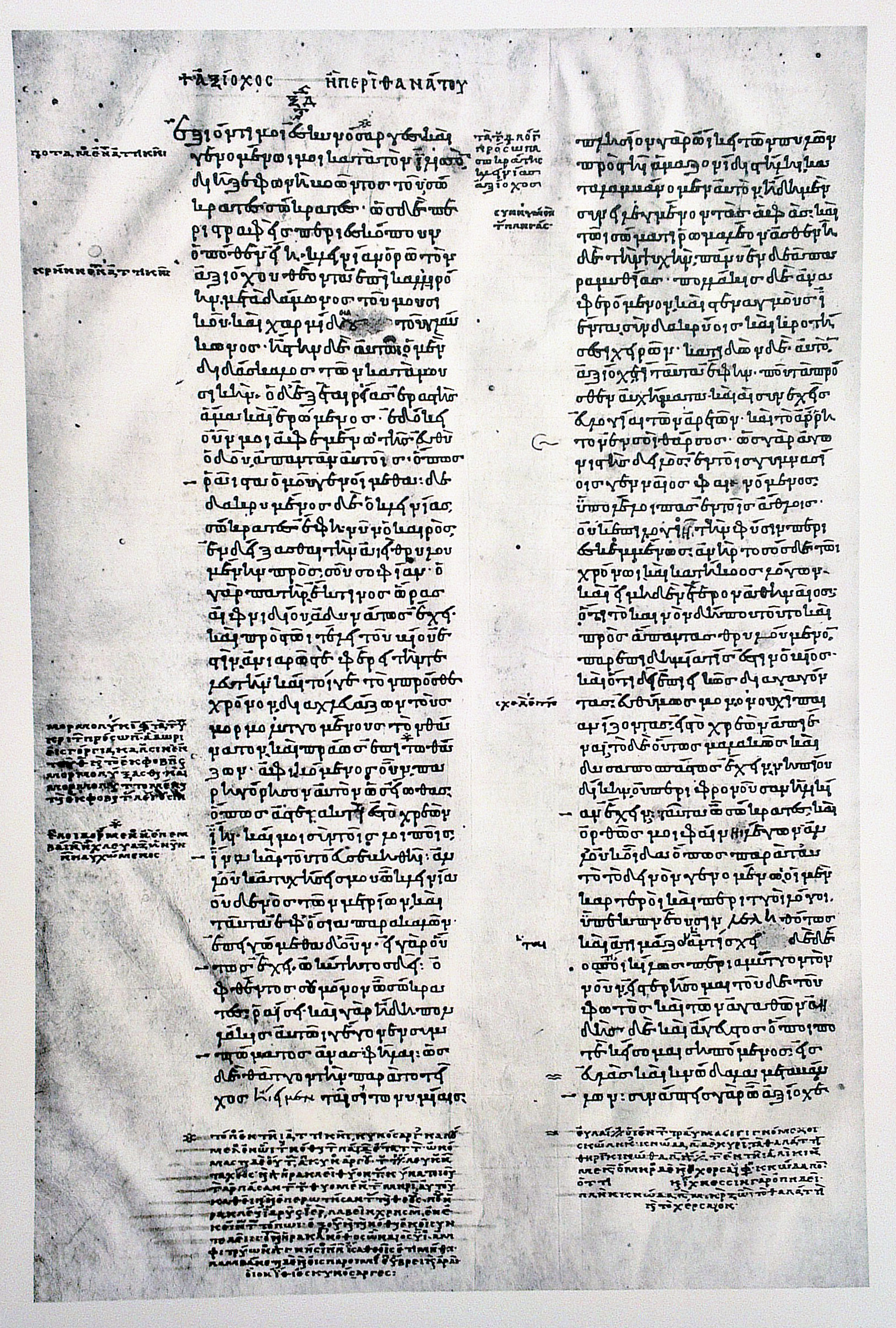 Page of the Codex Parisinus graecus 1807. Dialogue Axiochos.